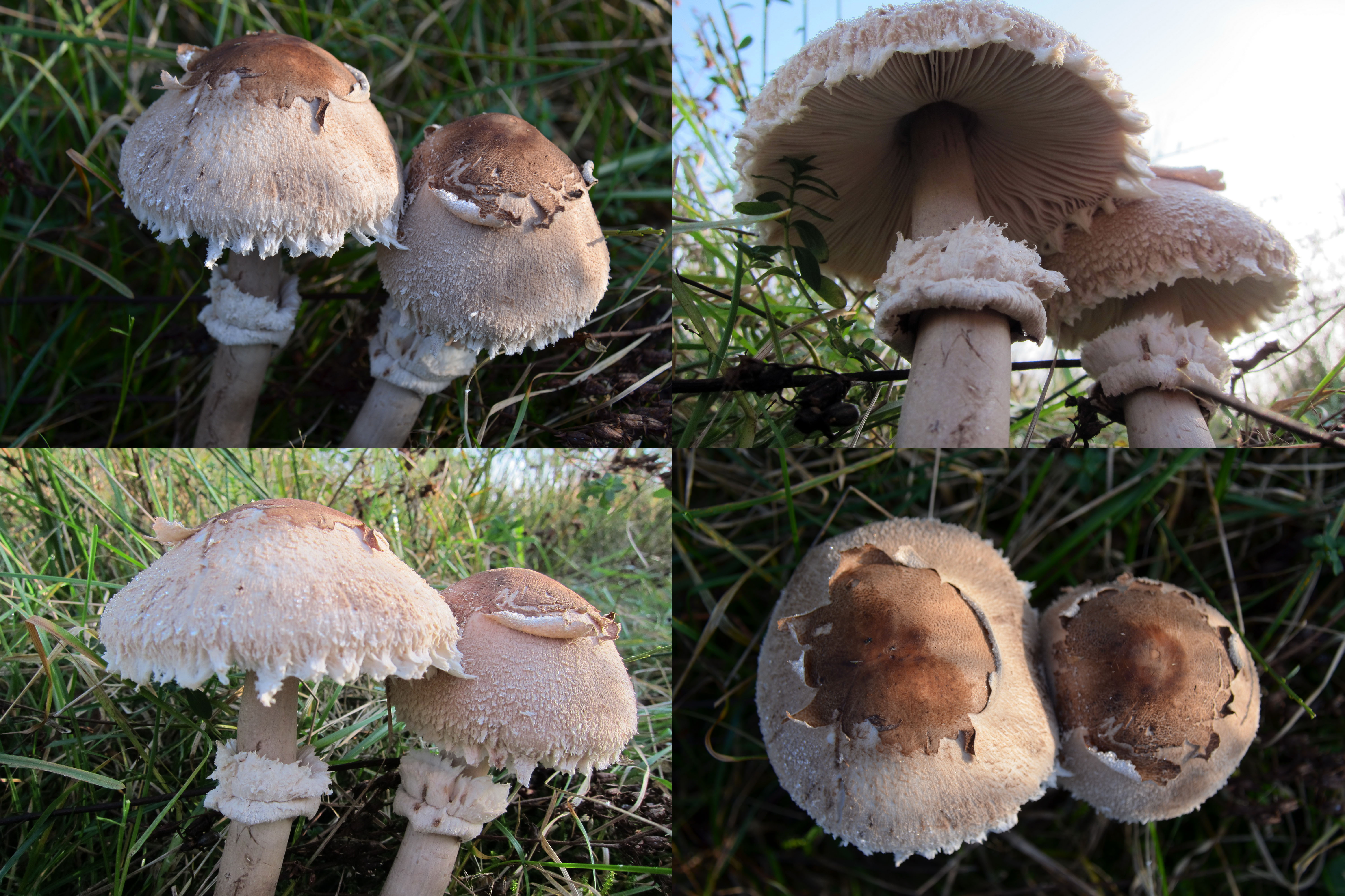 Macrolepiota hortensis, Syn. M. Bohemica (GB= Parasol,D= Gartenriesenschirmling, F= Lépiote vénéneuse, NL= Tuinparasolzwam), poisonness, at Posbank along the bicycle path between grass